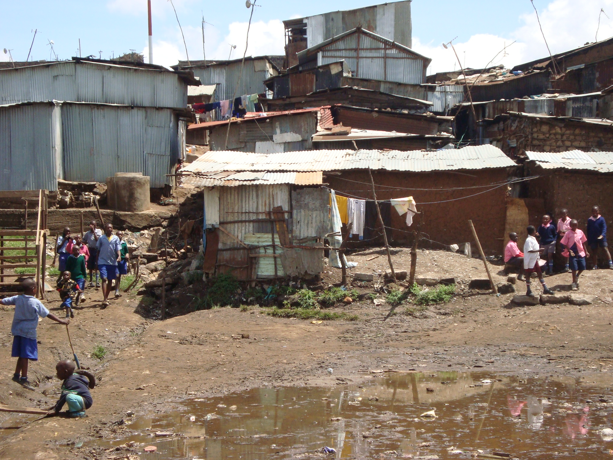 Photo by Laura Kraft (Oct.2010) Type 2: unplanned areas like Mathare (Nairobi), Manyatta (Kisumu) and Kaptembwo (Nakuru) It is estimated that in Nairobi alone around 300 of low income high density settlements with a population of 1.75 million exist (around 50% of the population) – with a steep upward trend.